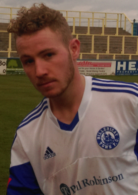 Conor Hubble, in Billericay Town away kit